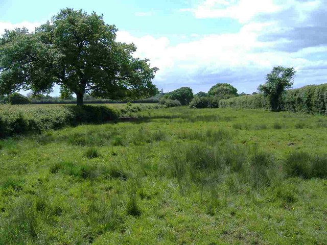 Bridleway, Stoke Common